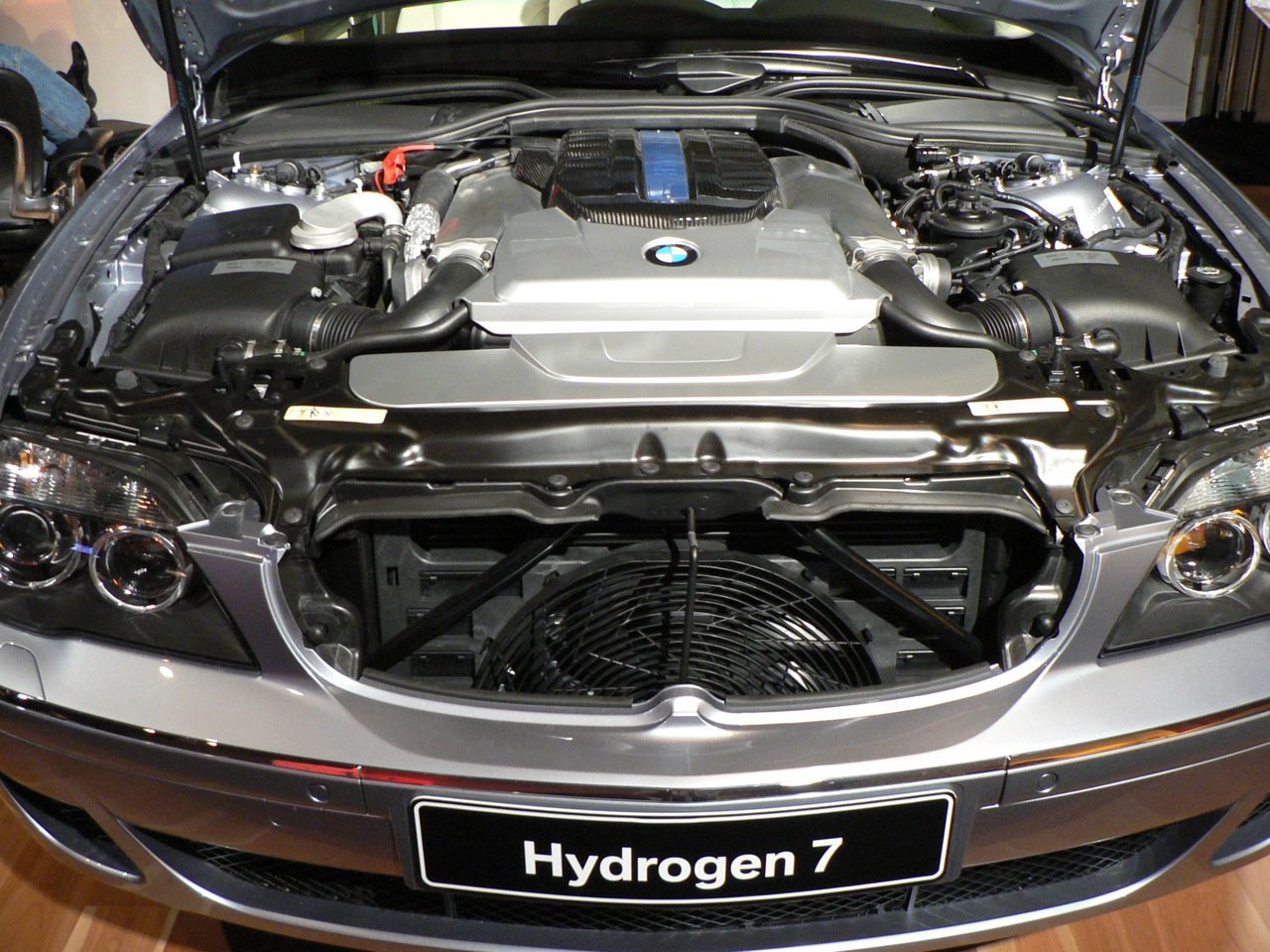 BMW Hydrogen 7 Engine From the TED Simulcast Lounge.